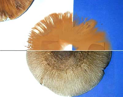 Photos of spore print of Volvariella volvacea split to show set-up (lower), and after removal of pileus or cap (upper) 24 hours later. Photographs by Eric Guinther, January 2004, O'ahu, Hawai'i released under the GNU Free Documentation License.